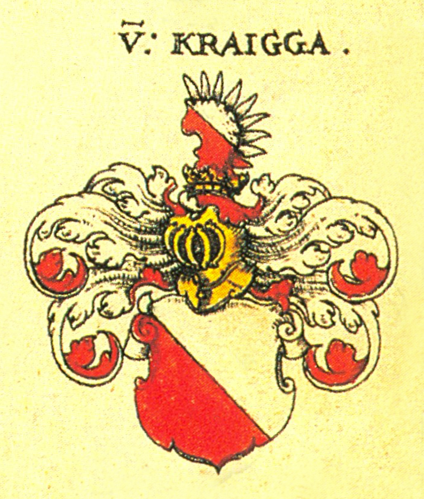 Coat of Arms of Kraiger